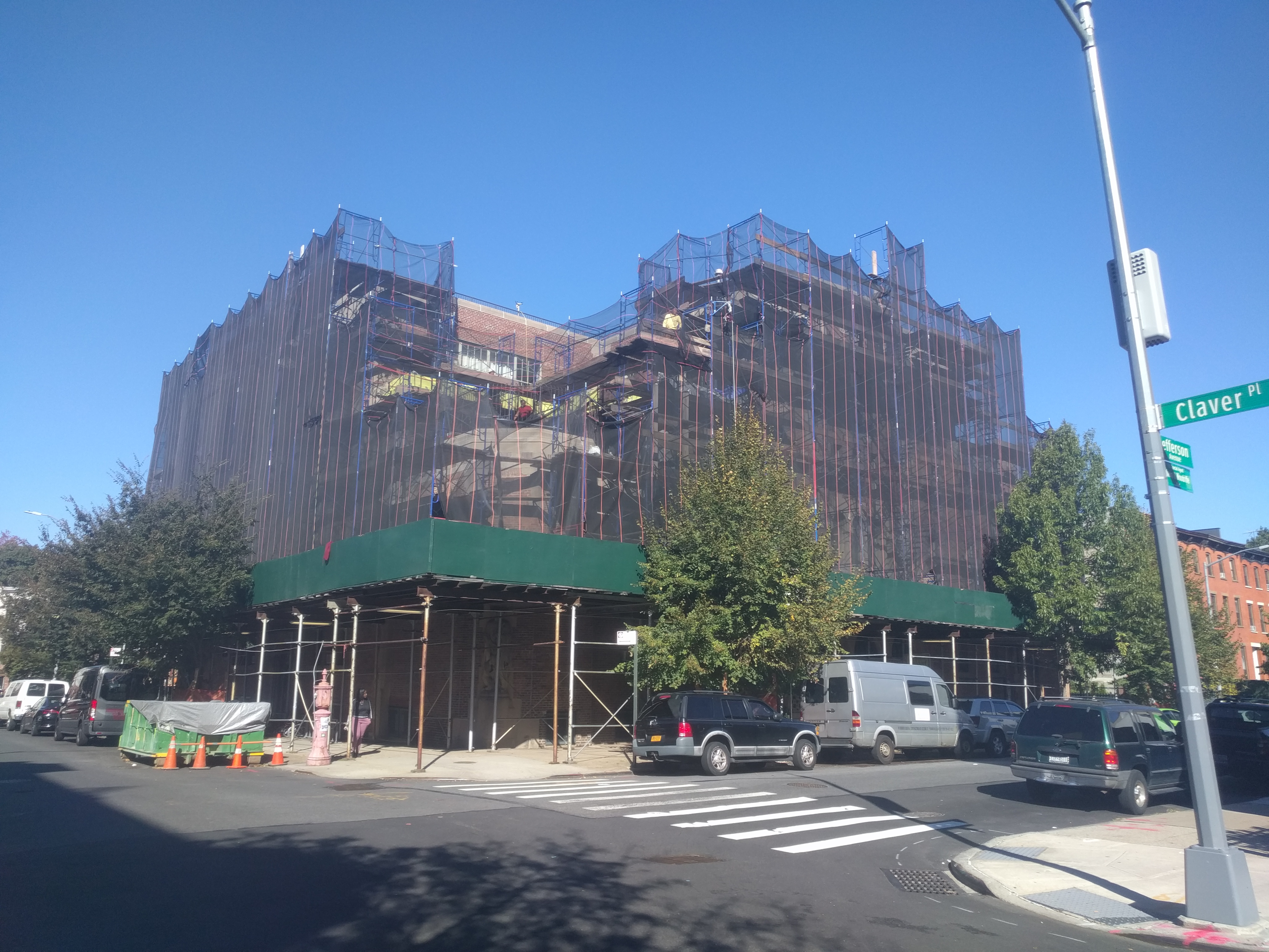 Looking northeast across Jefferson Avenue and Claver Street on a sunny afternoon on my way to editathon in Brooklyn Public Library